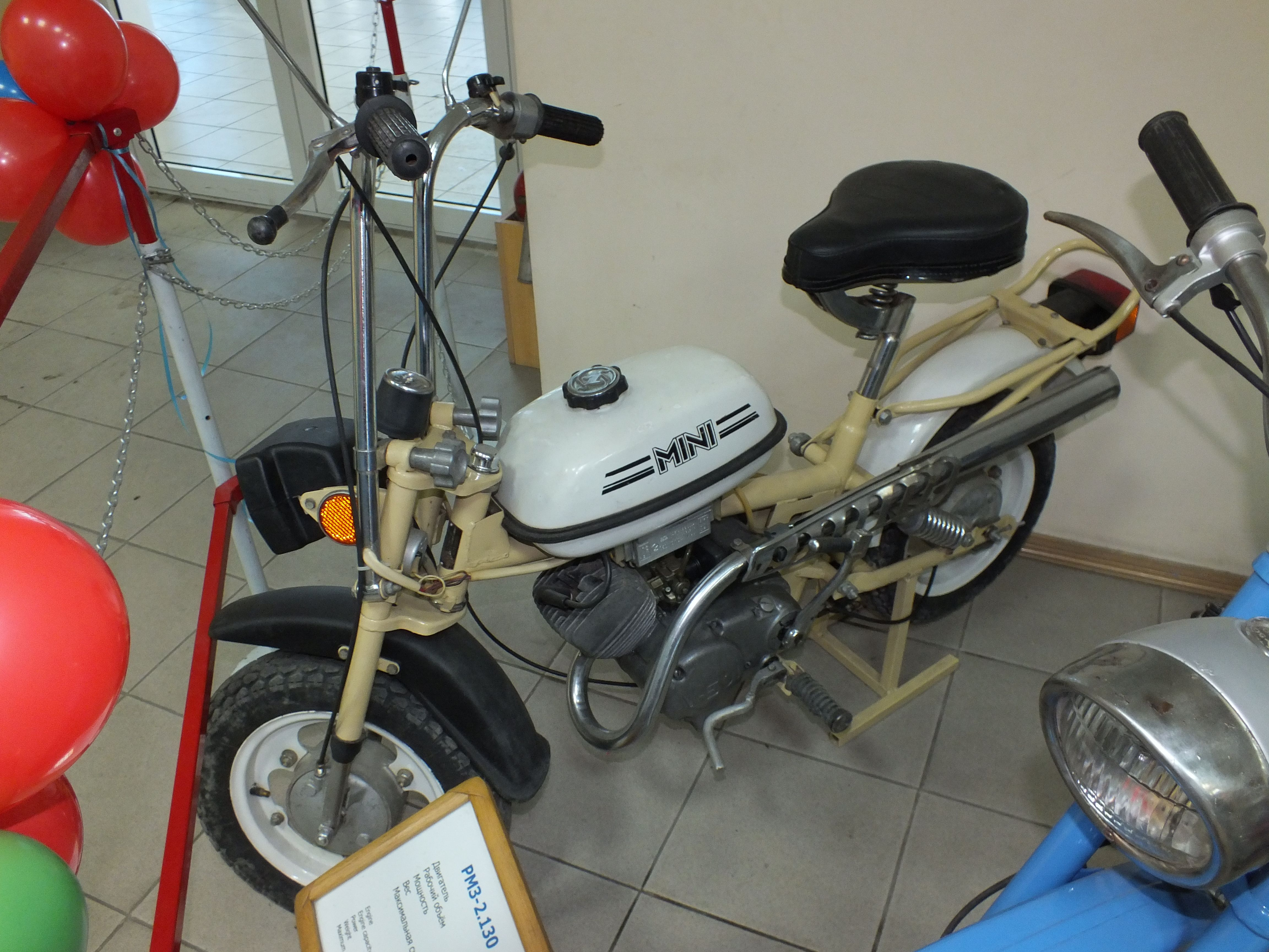 Motorcycles of Russia